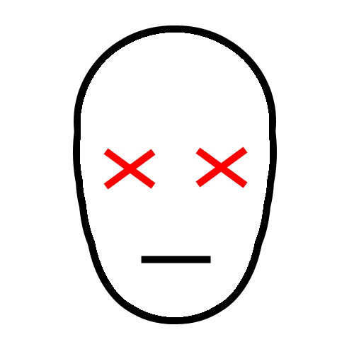 B1 classification image. Partially based on information found in this.